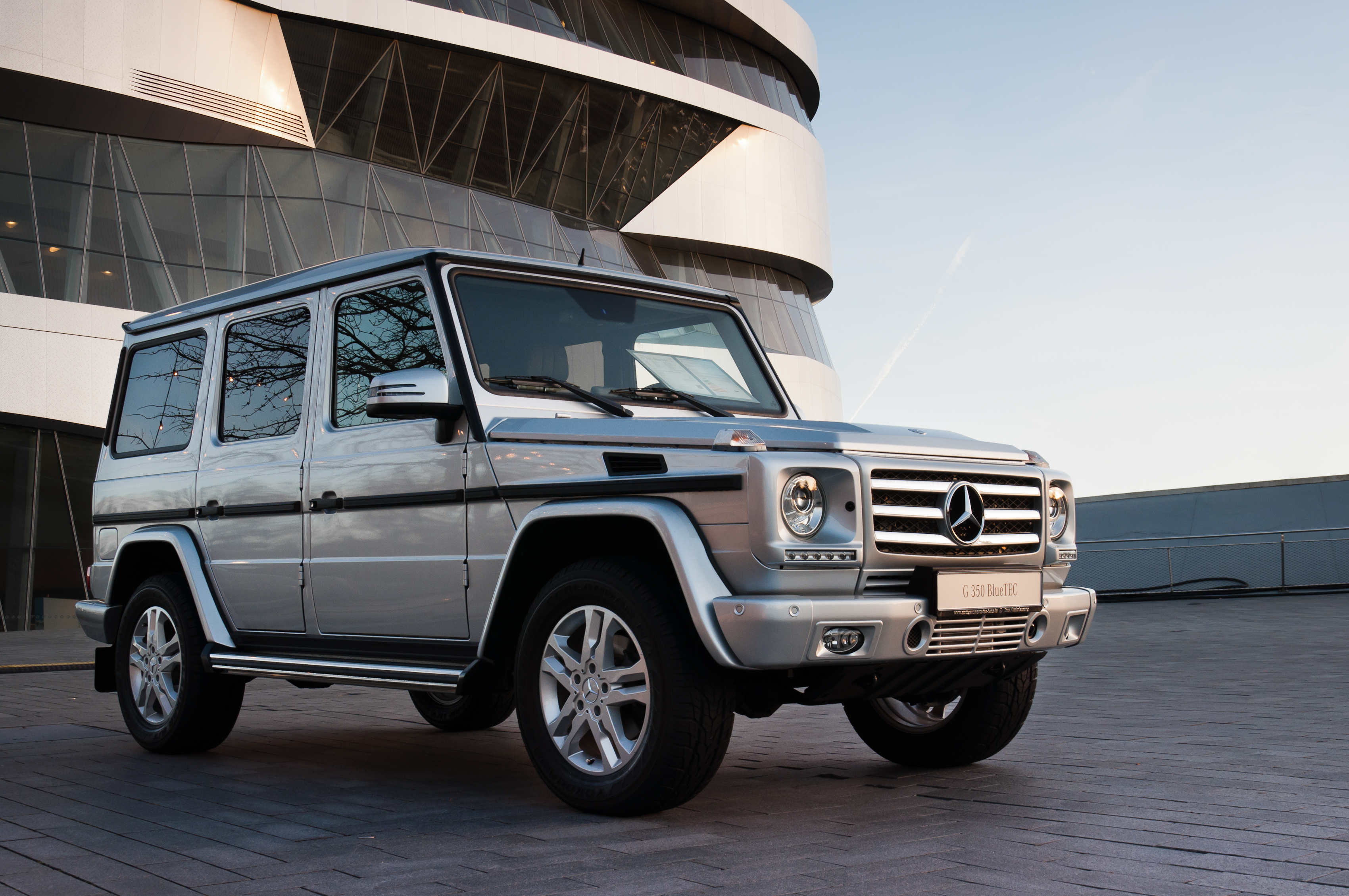 Mercedes-Benz G 350 BlueTEC (W463) in front of the Mercedes-Benz Museum in Stuttgart, Germany.